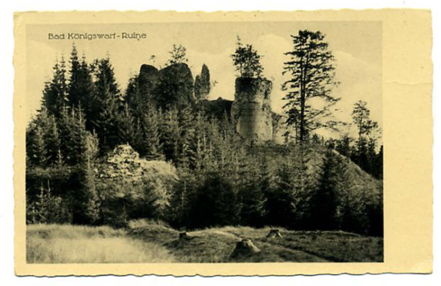 Ruins of Koenigswart castle